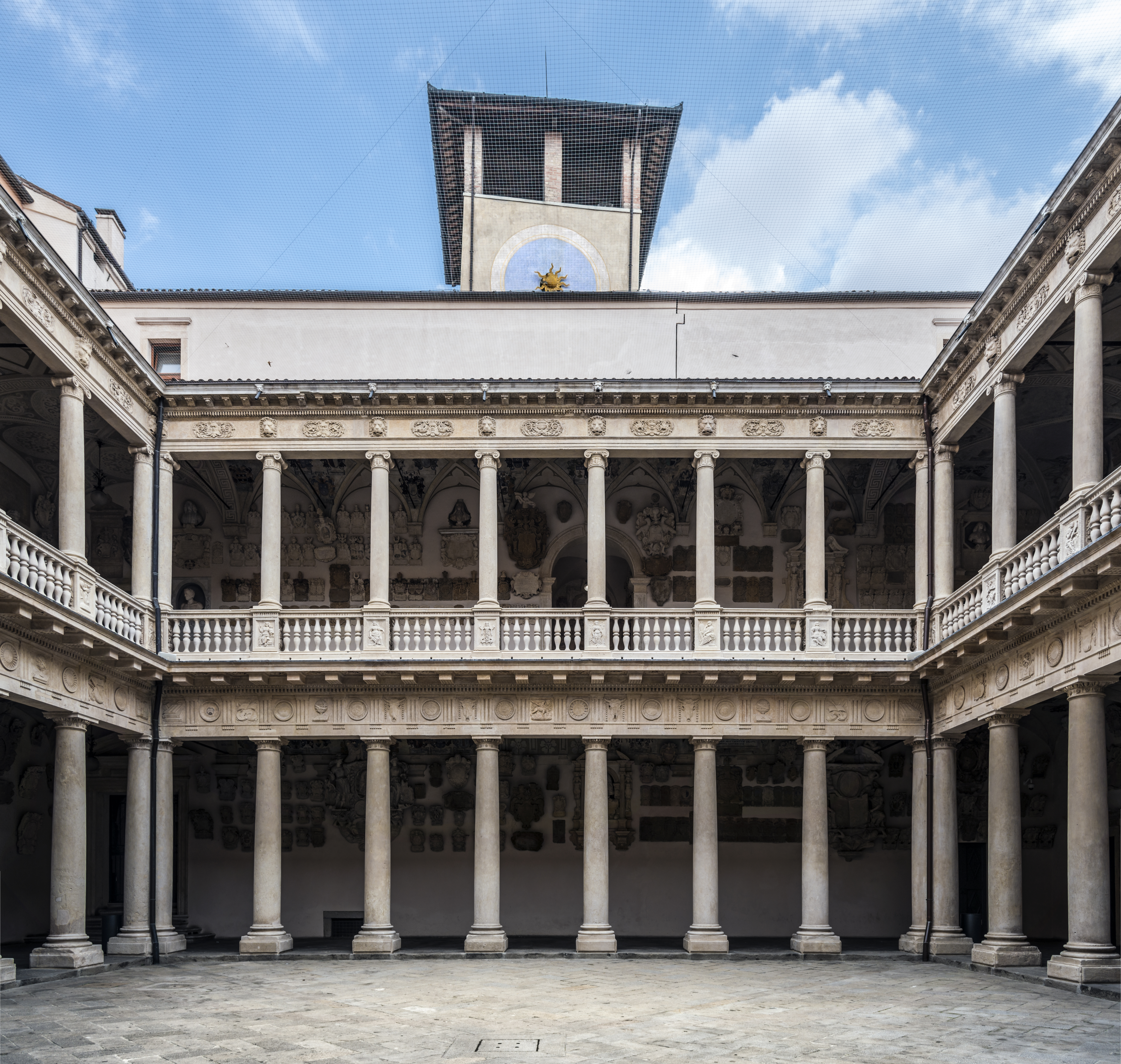 Padua university - Cortile Antico of Bo Palace and the tower in Padua.